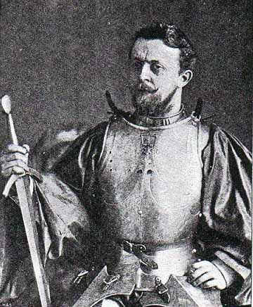 Artists of "The Strand Magazine", Vol. 10, Dec 1895.